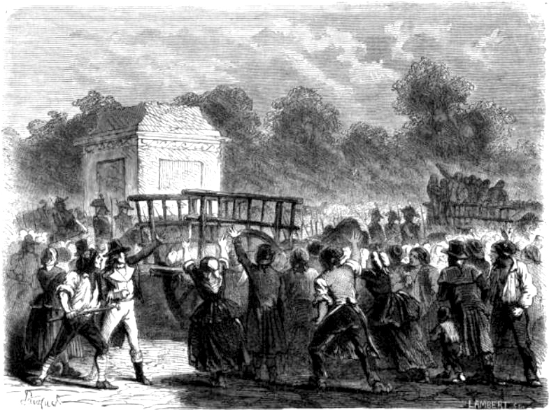 The Girondists's Execution, october 31, 1793